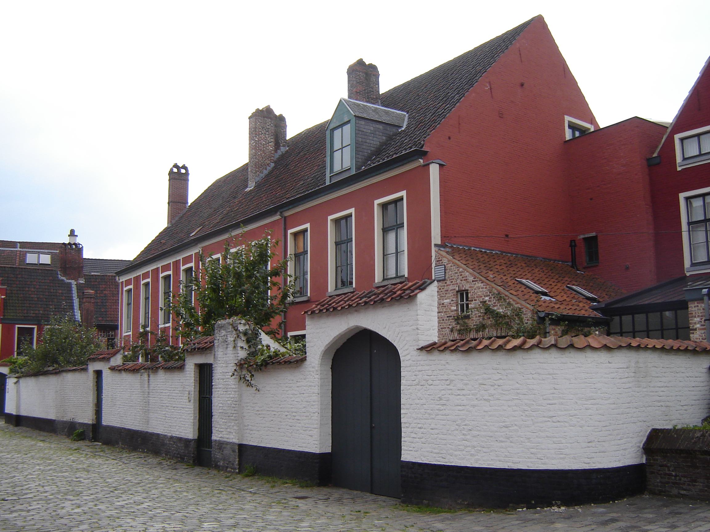 Zwartekatstraat street in the beguinage Sint-Elisabethbegijnhof. Gent, East Flanders, Belgium